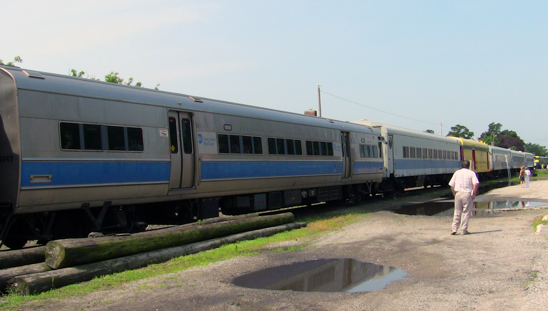 Line of preserved cars alongside the Long Island Railroad right-of-way at Riverhead location of the Railroad Museum of Long Island.